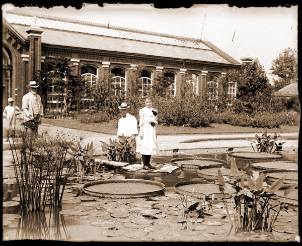 Woman standing on a leaf of Victoria cruziana in the lily pond in front of the Linnaean House of the Missouri Botanical Garden. Notice the wood sheet used to distribute her weight, so as to prevent the ripping of the delicate leaf